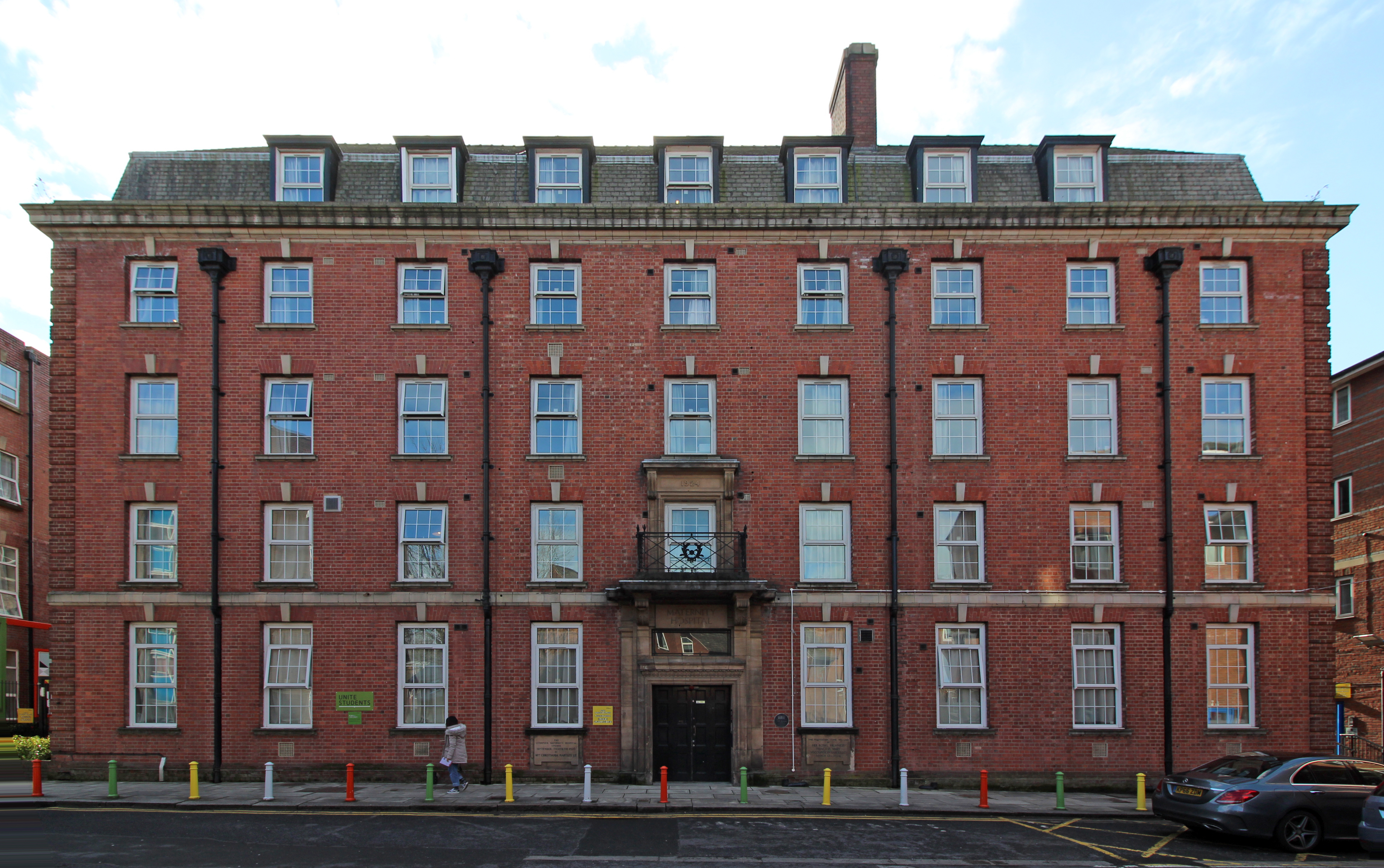 Front elevation on Cambridge Court (although its address was Oxford Street)